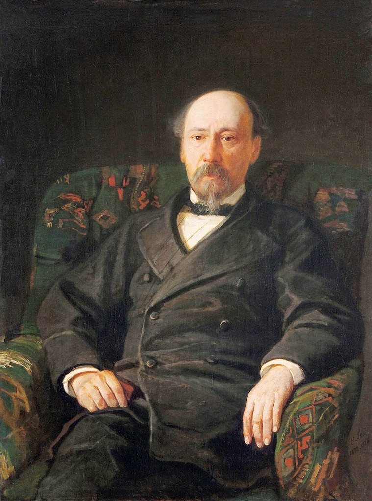 Portrait of the Poet Nikolay Nekrasov